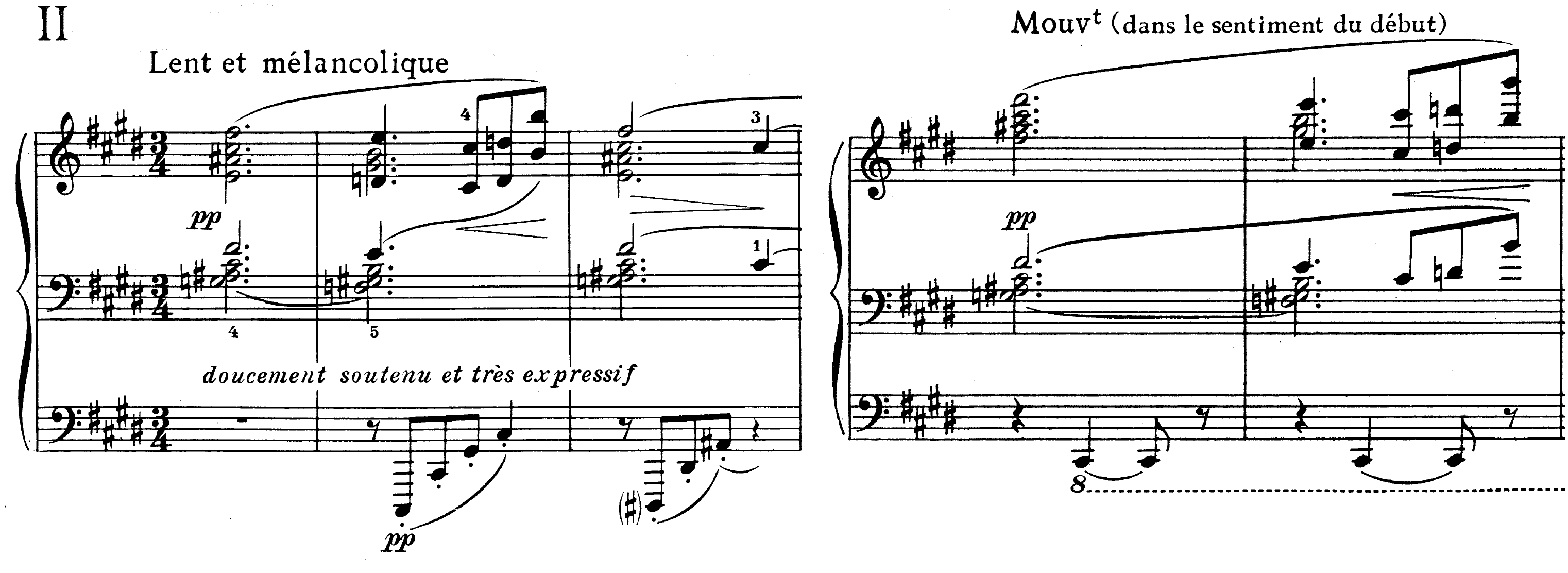 Feuilles Mortes, Debussy Preludes Book II, No. 2- measures 1 - 3 and 41 - 42. Chords with 7th and #9th.